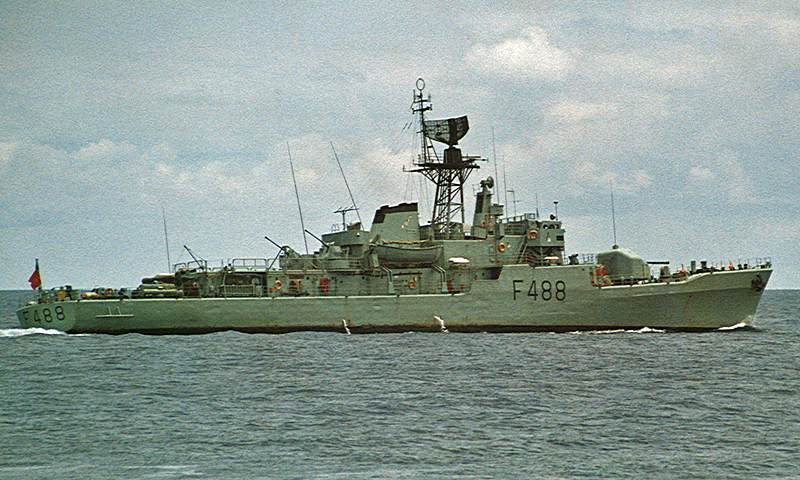 Portuguese Navy corvette NRP Afonso Cerqueira, F488, in 1988.